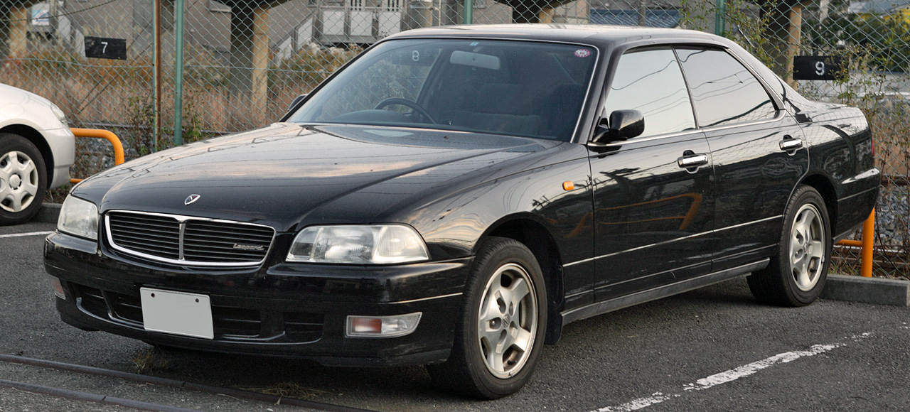 Nissan Leopard ( Y33 )